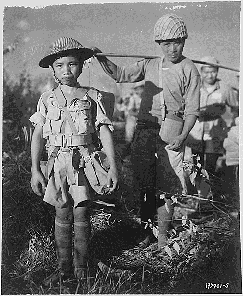 This Chinese soldier, age 10, with heavy pack, is a member of a Chinese division which is boarding planes at the North Airstrip, Myitkyina, Burma, bound for China., 12/05/1944